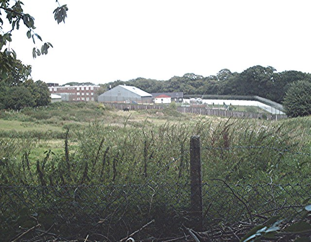 HMP Bullwood Hall View east.